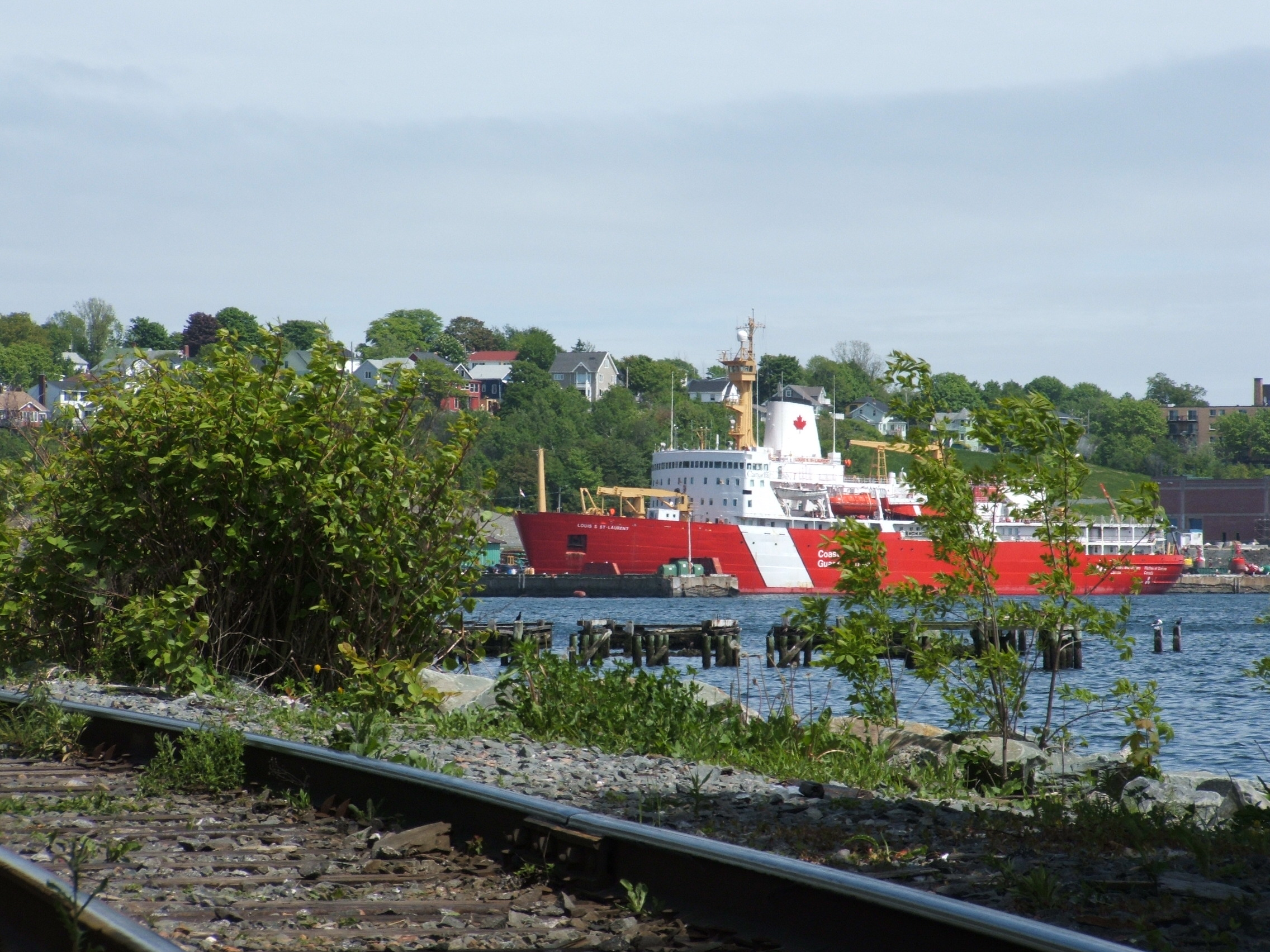 Photographer: Gord Spence CCGS Louis S St Laurent moored in Halifax Harbour, June of 2007